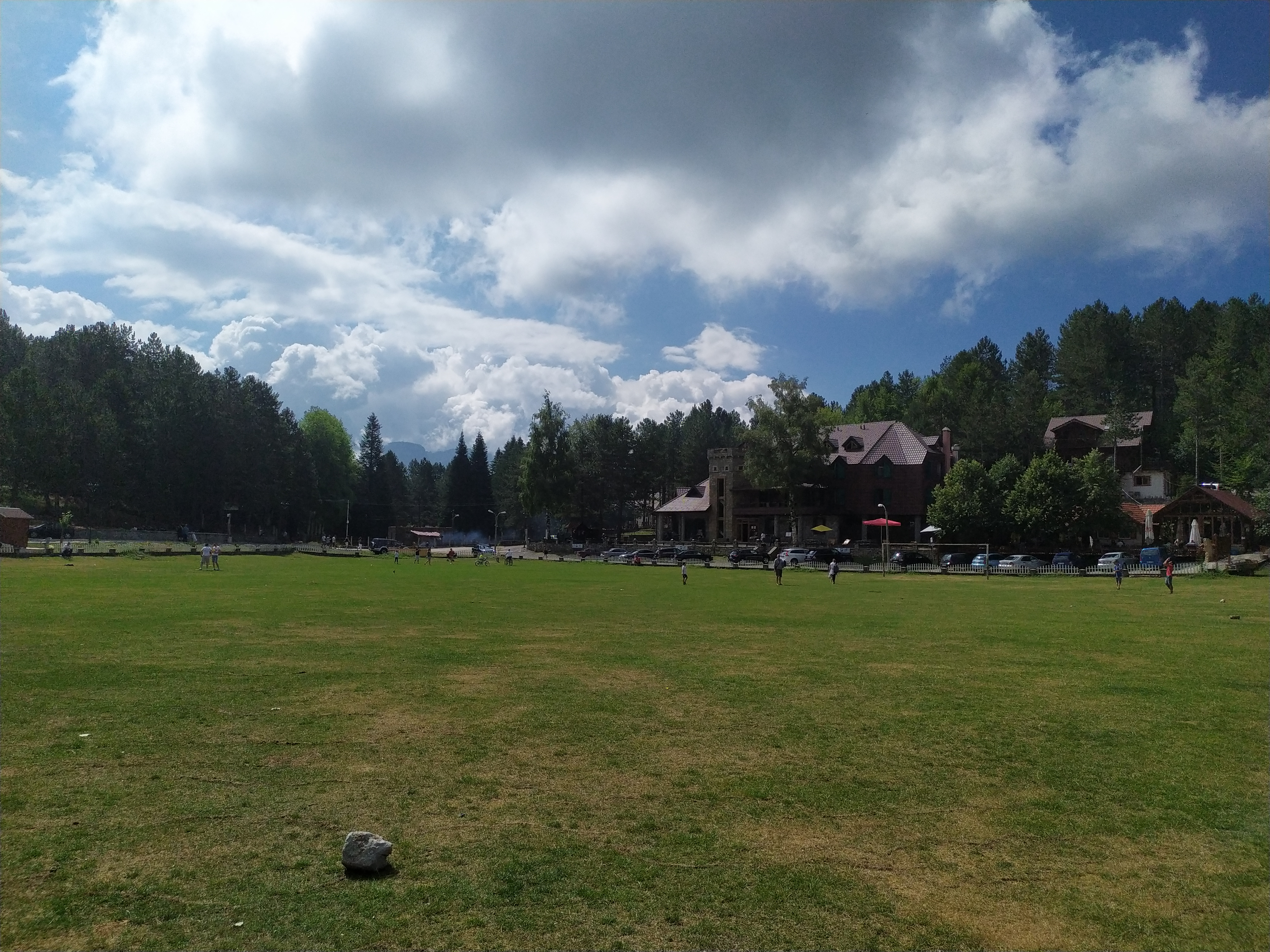 Razëm park in Northern Albania